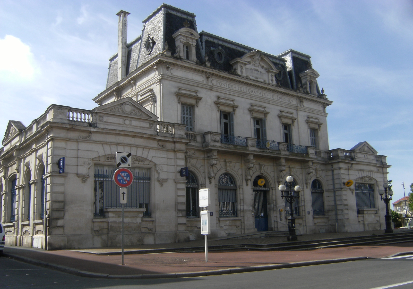 Hôtel des Postes de Rochefort